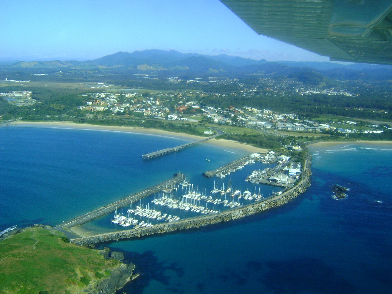 Coffs Harbour